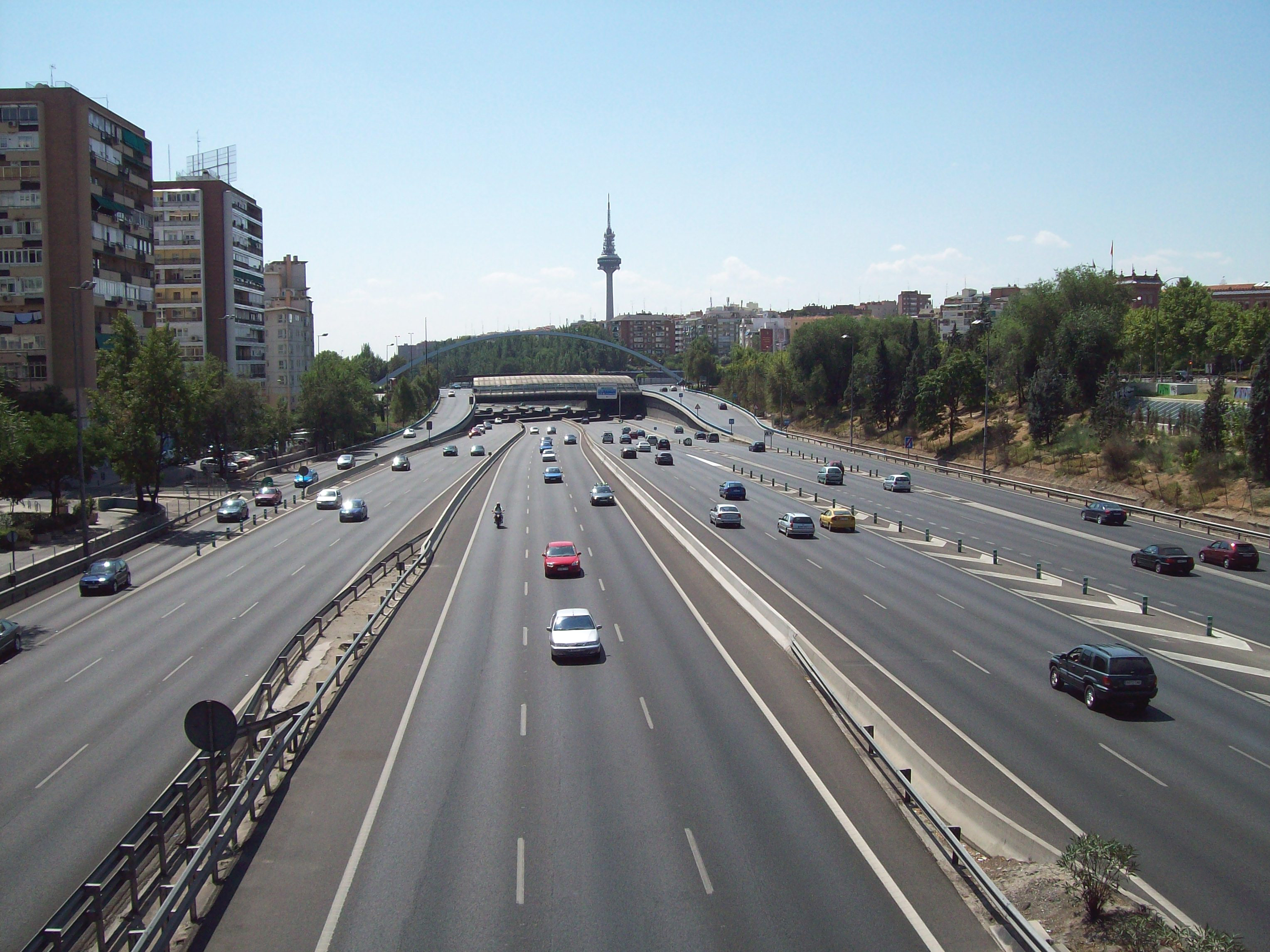 M-30 ring highway in Madrid (Spain). In the background, Puente de Ventas (a bridge) and Torrespaña (TV and radio tower).